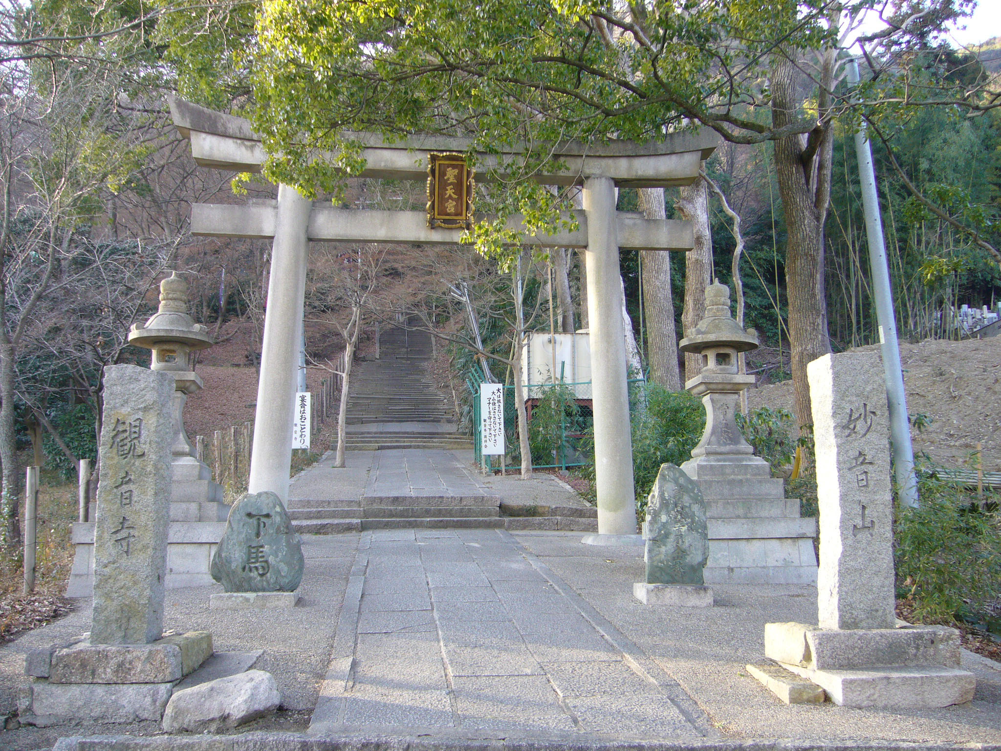 Yamazaki Shoten, a Buddhist temple in Oyamazaki, Kyoto prefecture, Japan